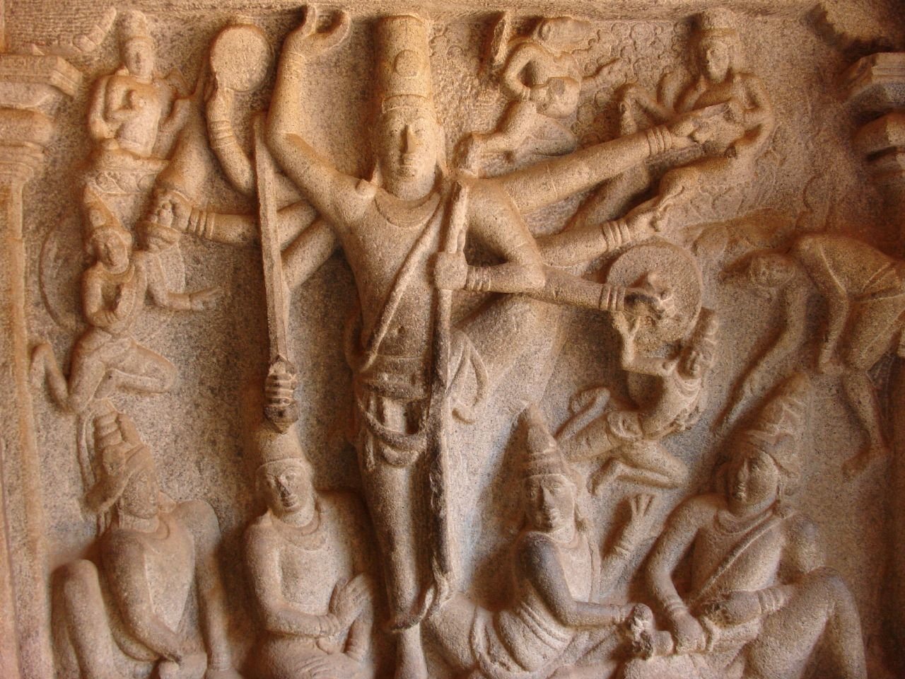 Carved interior wall of a temple at Mamallapuram, showing Vishnu taking his three steps (one on the earth, one in the heavens, and one on the evil demon he will banish)